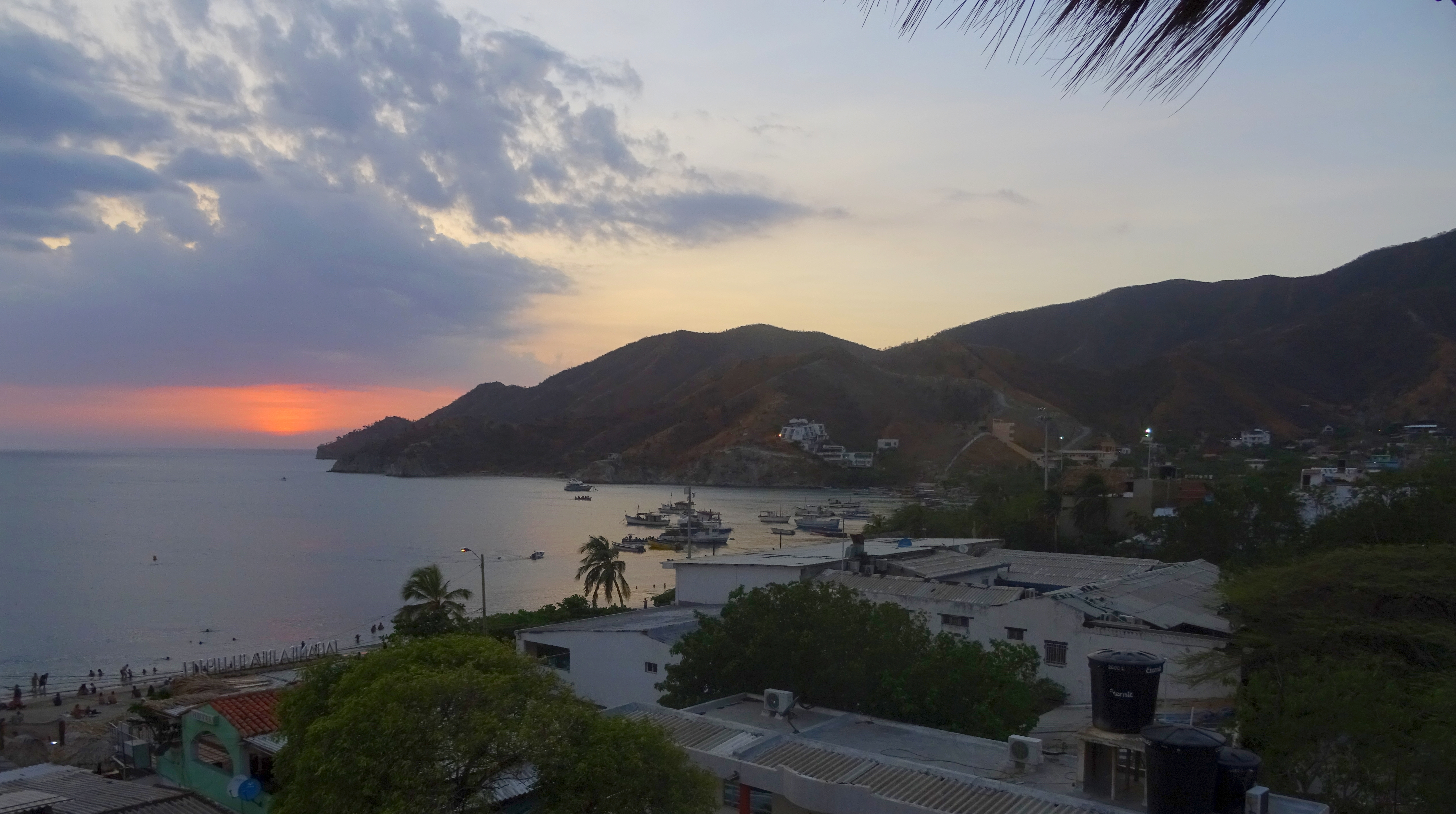 View of Taganga at sunset